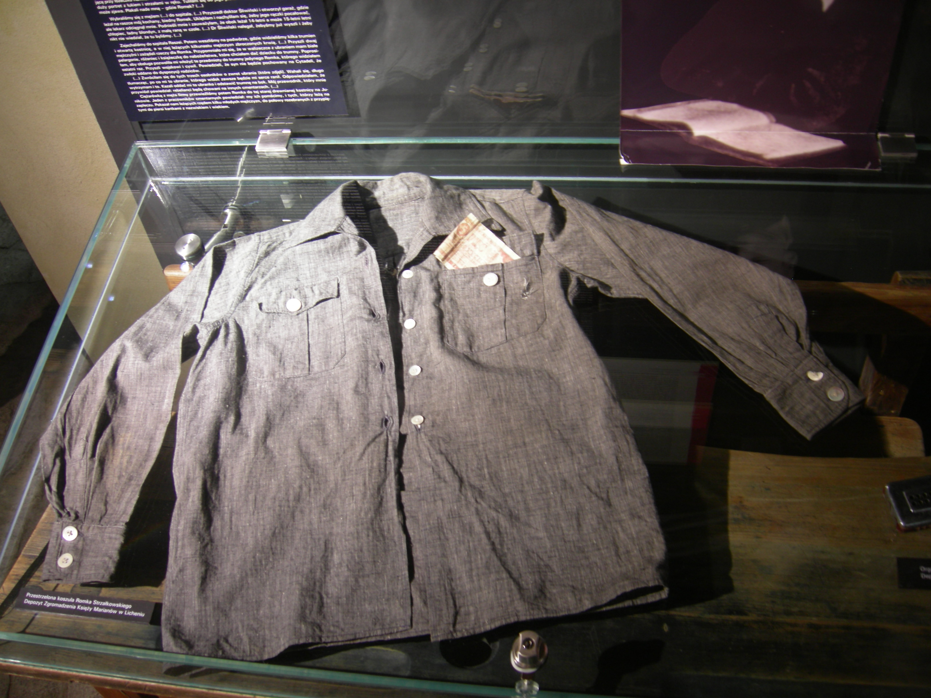 Night of Museums 2008, Poznań, Poland